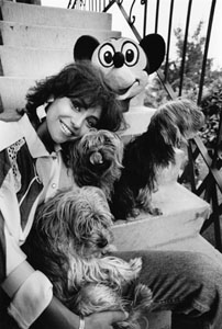 Lolita Morena